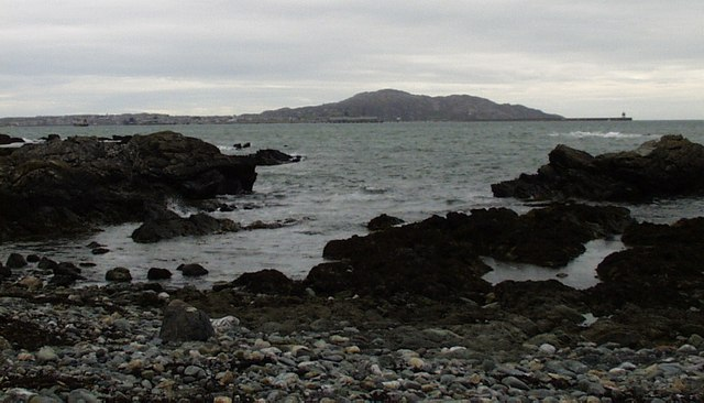 Holyhead Mountain and Breakwater.